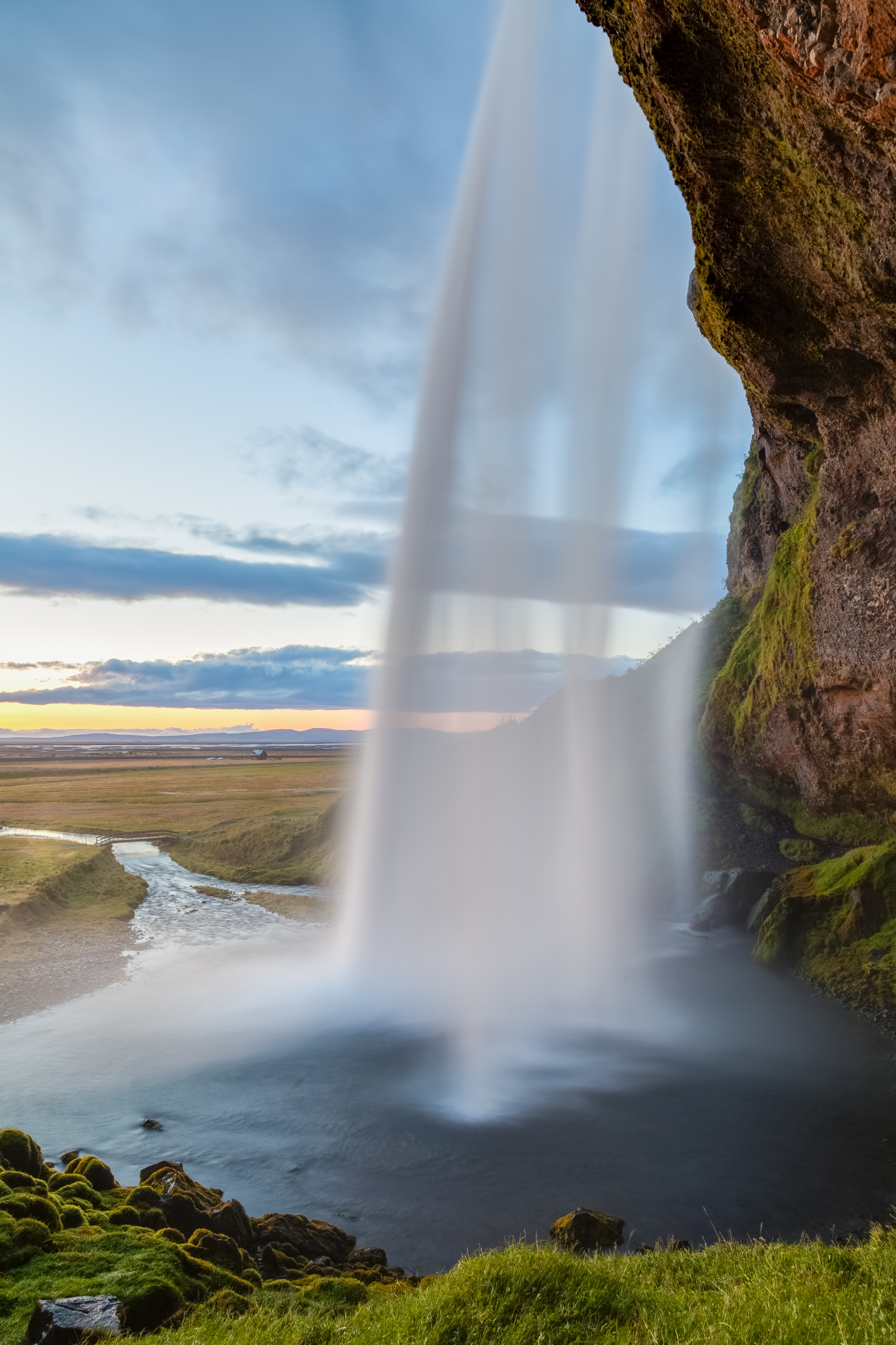 Lateral view of the Seljalandsfoss waterfall during a sunset, Suðurland, Iceland. The waterfall of the river Seljalandsá drops 60 metres (200 ft) over the cliffs of the former coastline.